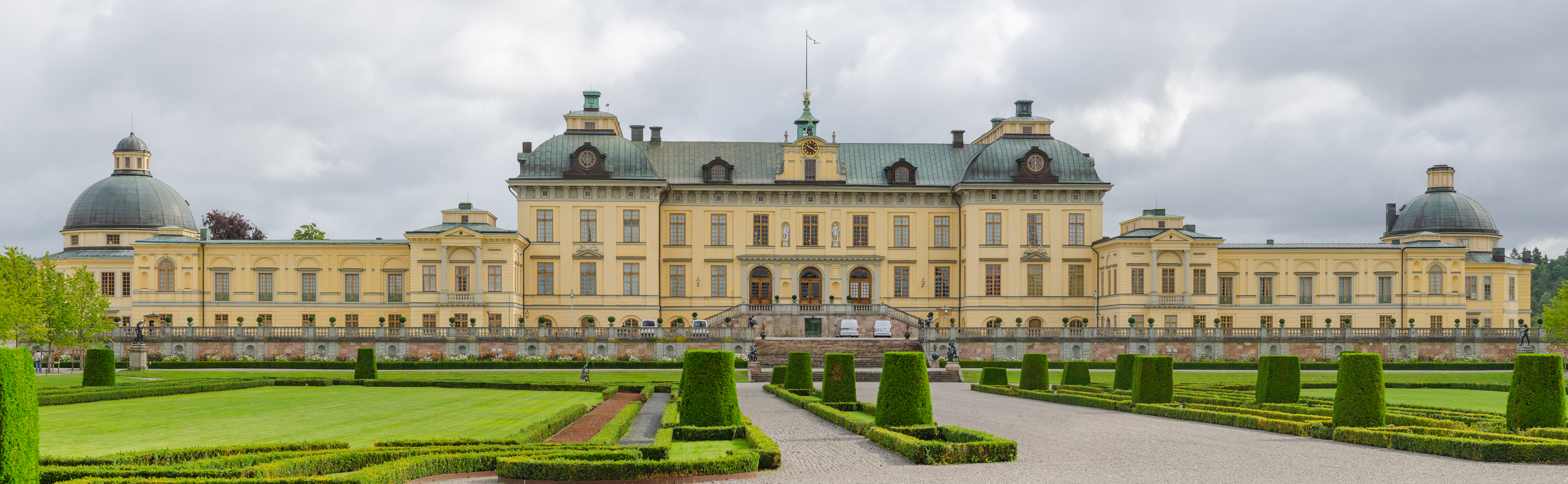 Drottningholm Palace, built 1662–1750 and since 1981 the private residence of the Swedish royal family. The name "Drottningholm" literally means "Queen's islet".